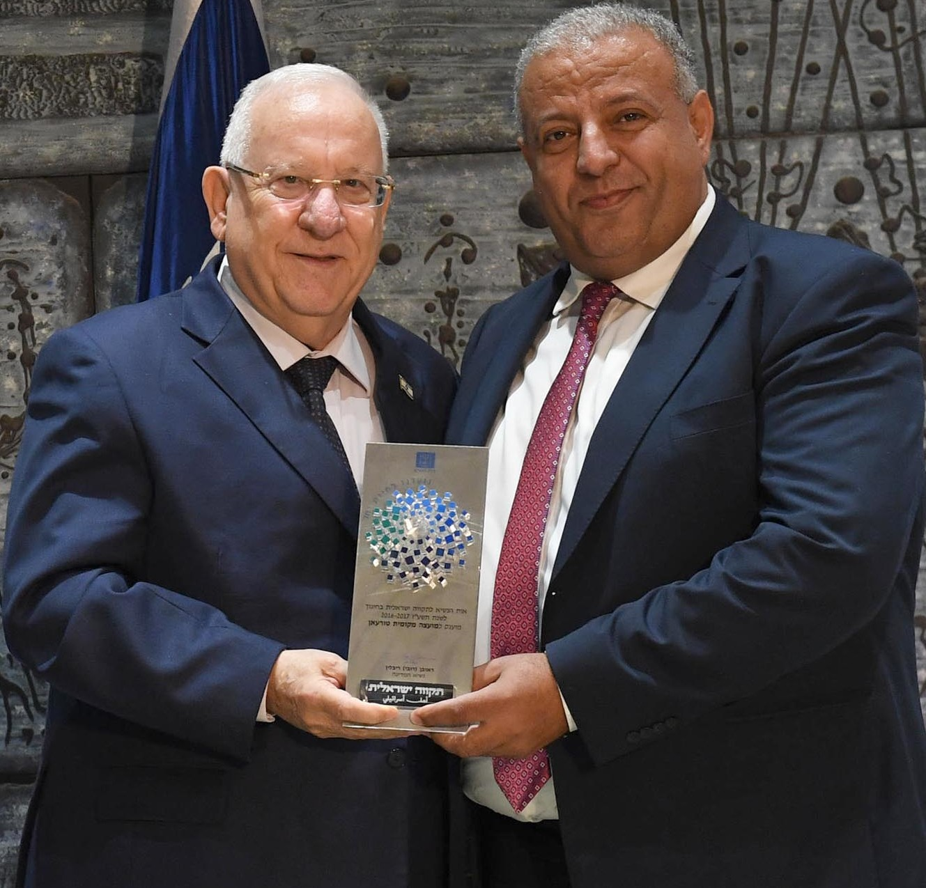 For the third consecutive year, President Reuven Rivlin has granting the "President's Award for Education for Partnership" for the year 2016/17, as part of the "Israel Hope in Education" conference, in cooperation with the Minister of Education and the Lautman Foundation, Wednesday, November 22, 2017. Photo Credit: Mark Neyman / GPO.